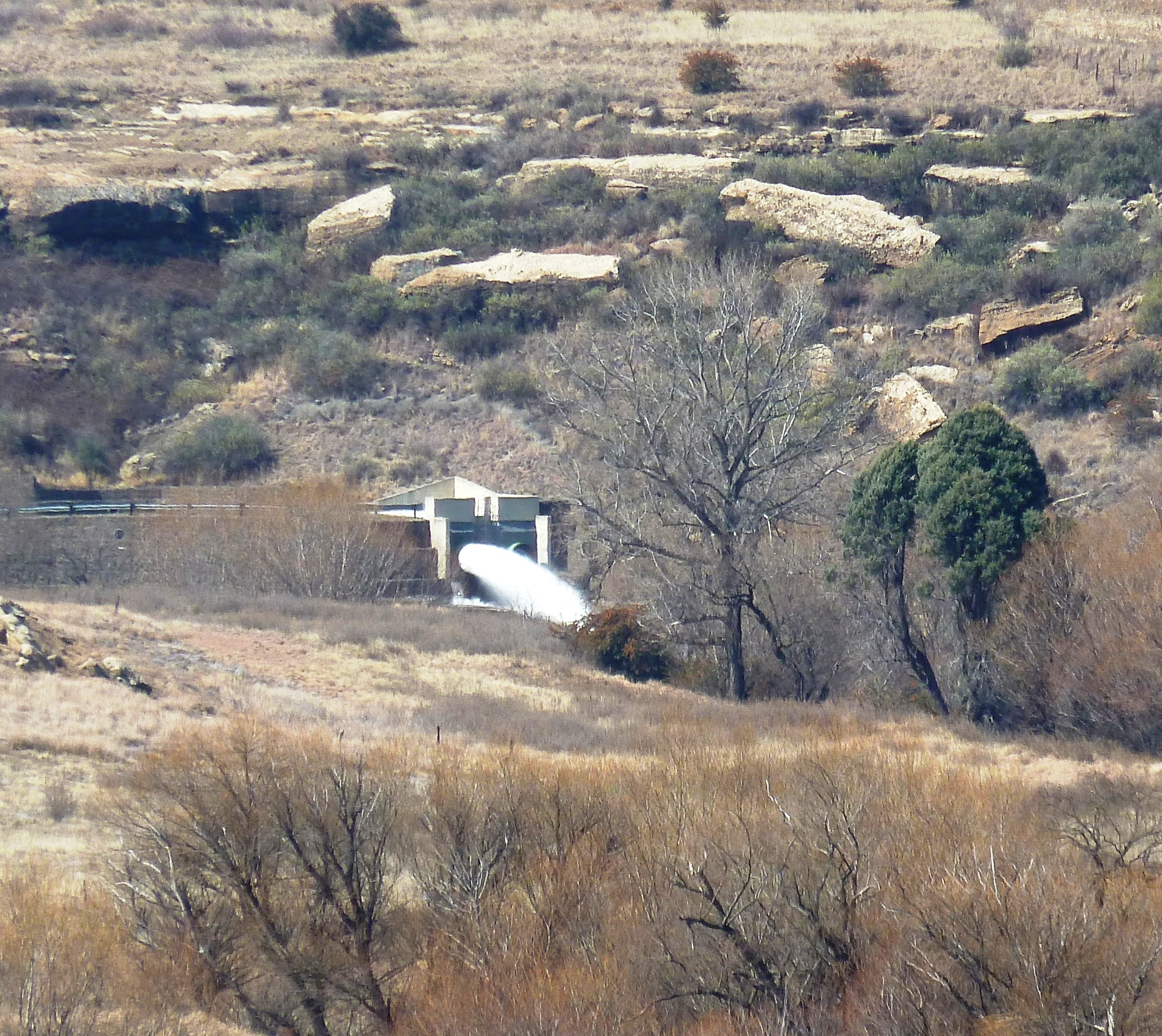 Little Caledon River outfall from the Lesotho Highlands Water Project, where between 4 and 10 m³ water is released per second, to arrive at Bloemfontein after a journey of 200 km. It provides the Mangaung metro and other Free State towns with an expensive water source when a water crisis is at hand. In the case of Mangaung the cost is 11 times higher (R2,20 per kiloliter vs. 18,7c per kiloliter at 2014 prices). Concern was also expressed that water may be extracted at Maseru or Ladybrand, or by farmers along the river banks.[1][2] ↑ a b (12 Julie 2014). "Kommer oor duur water: Lesotho-Hooglandskema lewer reeds van Donderdag aan klein Caledonrivier". Netwerk24. Retrieved on 24 August 2015. ↑ a b (21 Augustus 2015). "Vrystaat kry weer water van Lesotho". Netwerk24. Retrieved on 24 August 2015.